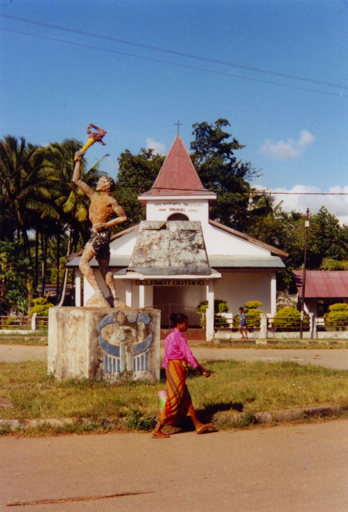 Photo by J. Patrick Fischer Protestant church Immanuel in Lospalos/Timor-Leste on 24th June 2002.